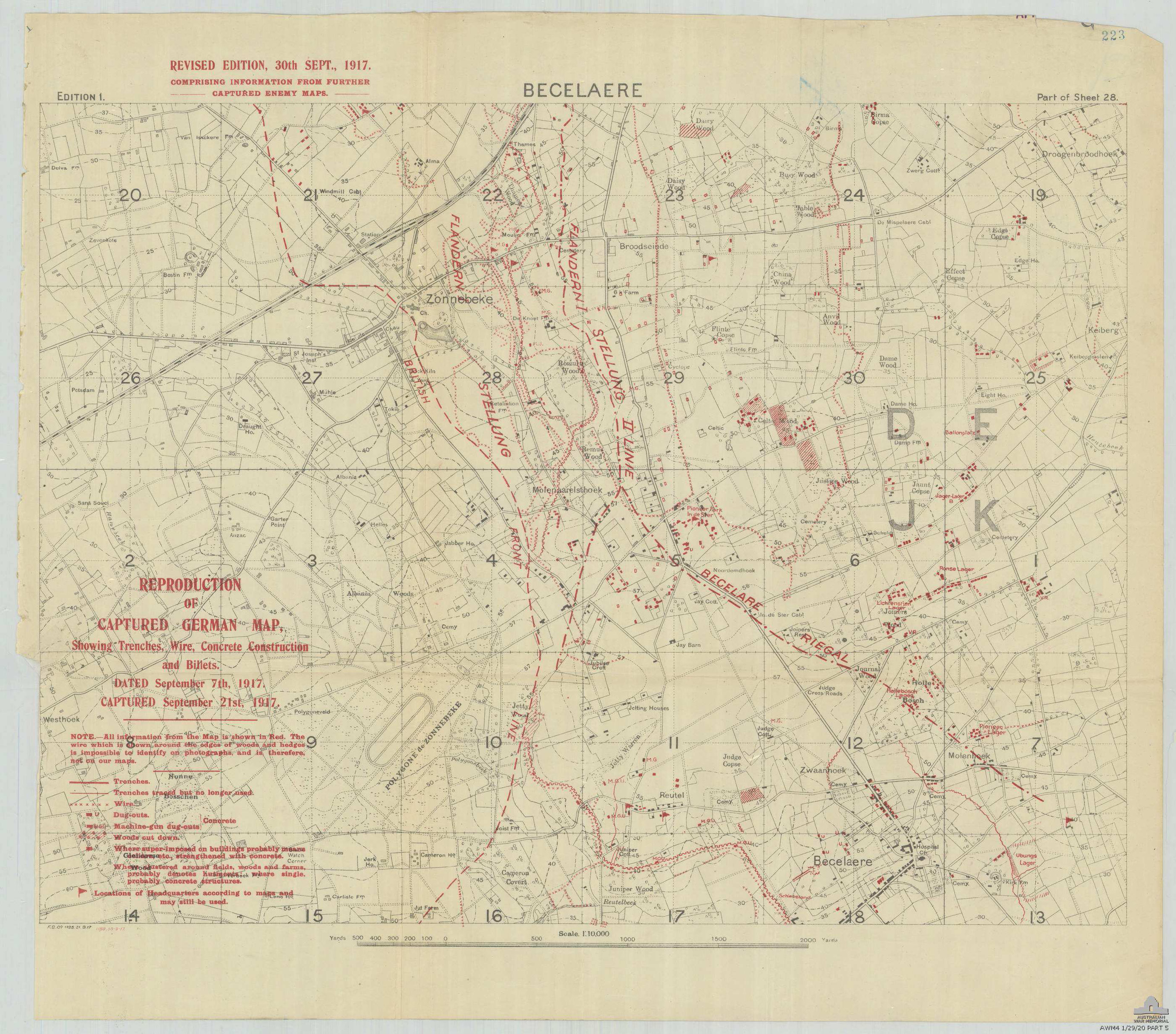 1:10000 scale trench map that reproduces details from a captured German trench map, 30 Sept.